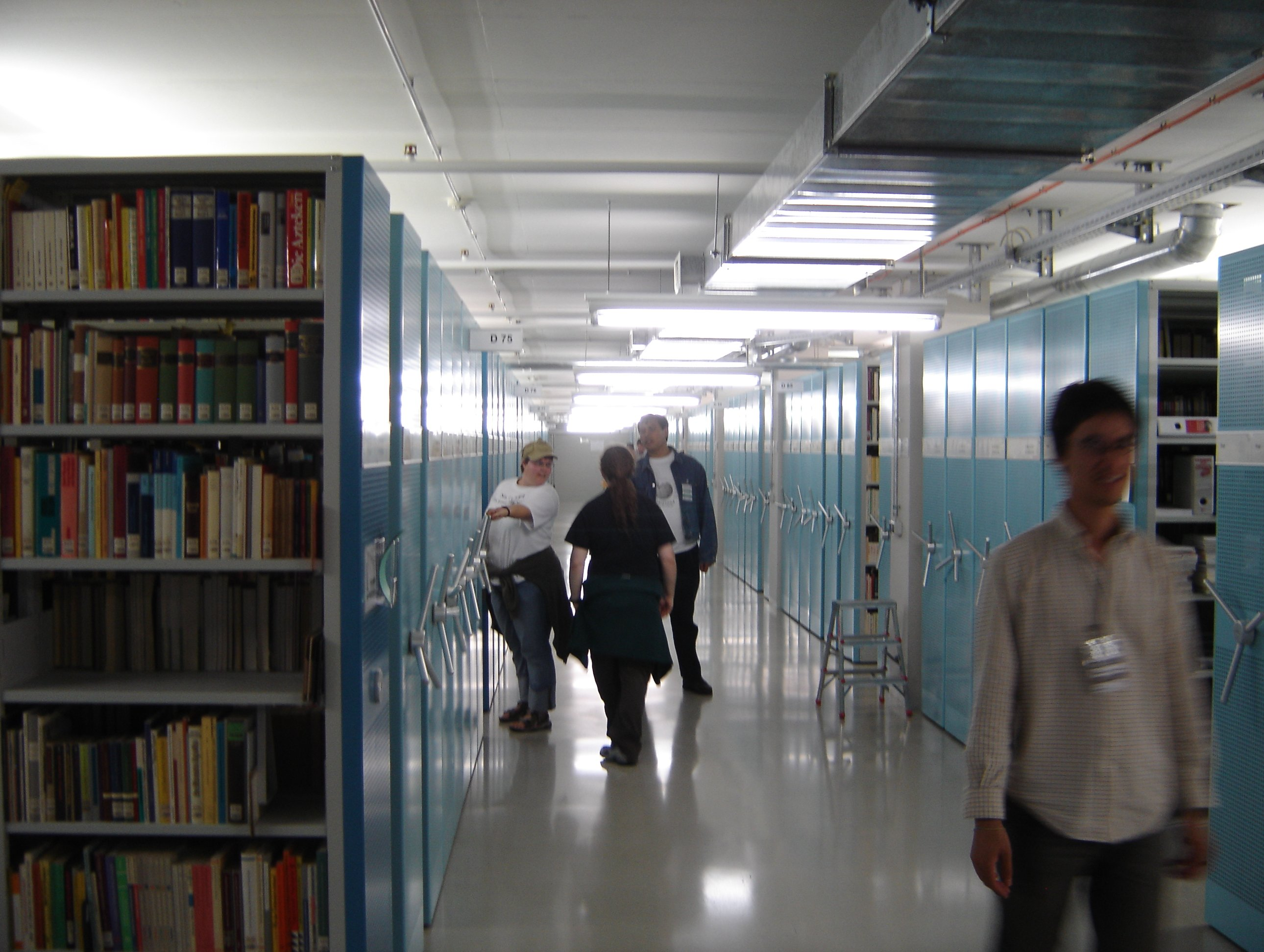 Magazines of the Deutsche Bibliothek (German Library) in Frankfurt am Main, during a tour that was part of the Wikimania post-conference activities 2005. Henna, Thryduulf, Meursault2004 and Tobias Denninger